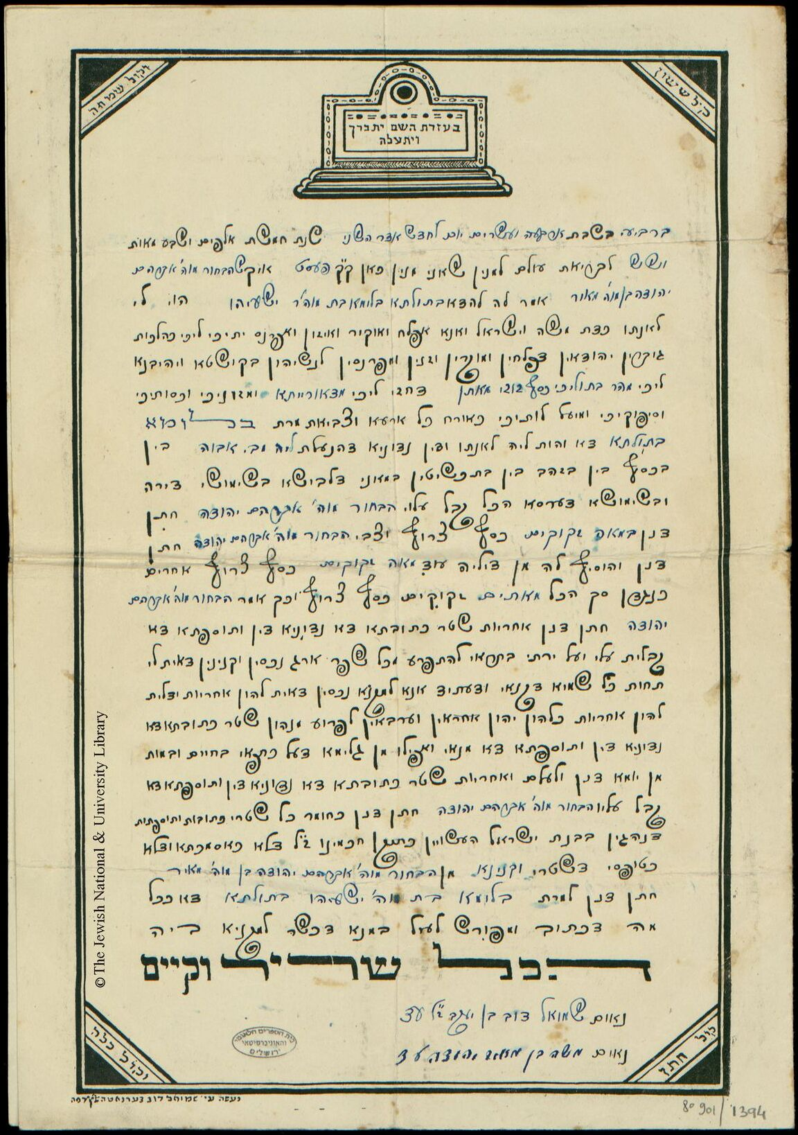 Ketubah from The Ketubot Collection of the National Library of Israel